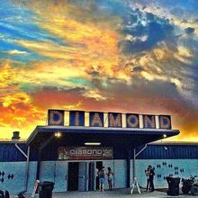 Diamond Ballroom in Oklahoma City, OK Front door at sunset.